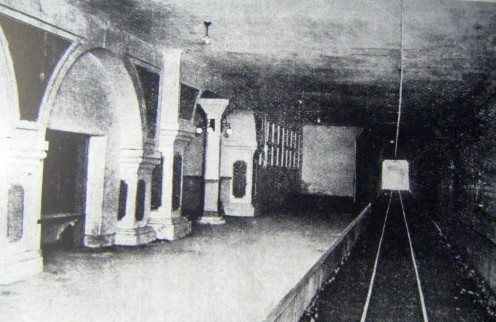 An underground platform at Sendai Station. This was built in 1925 and, in sense, Japan's oldedst underground rail system. It had a single-track and a single-platform. This part of the station was closed in 19552 because it became too old and too crowded.